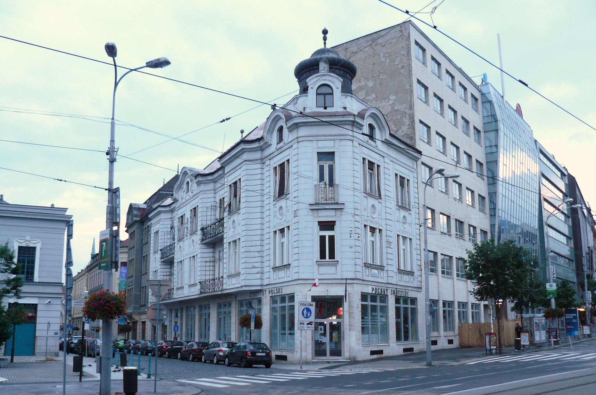 The Polish Institute. Bratislava.